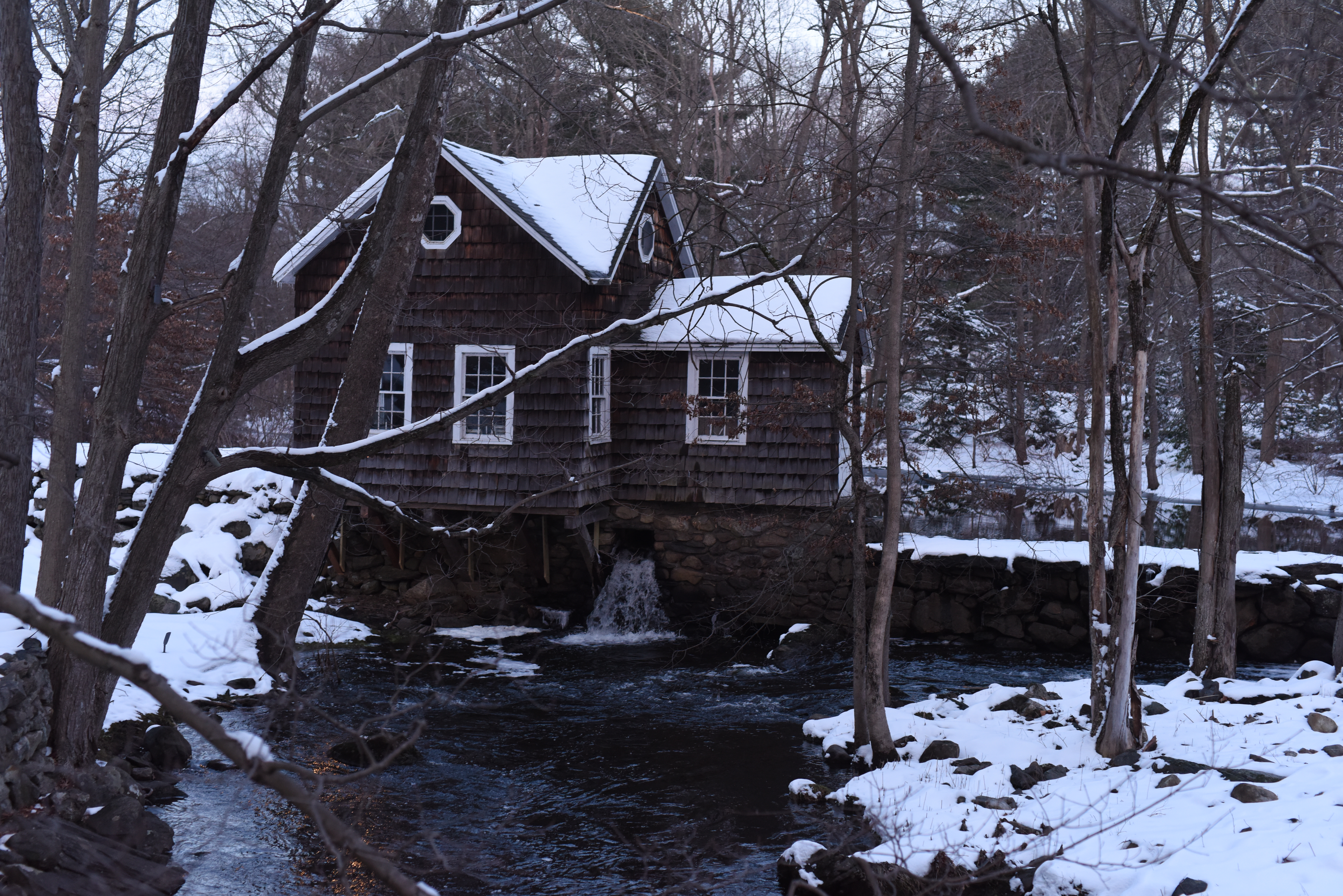 The historic Grist Mill in Easton, CT.